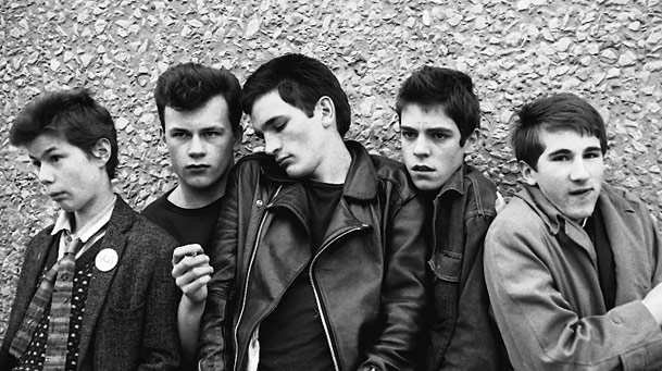 The Cortinas 1977